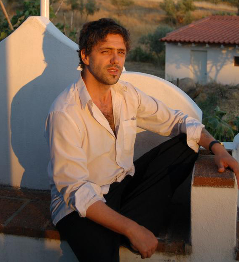 Andreu Jacob in Portugal